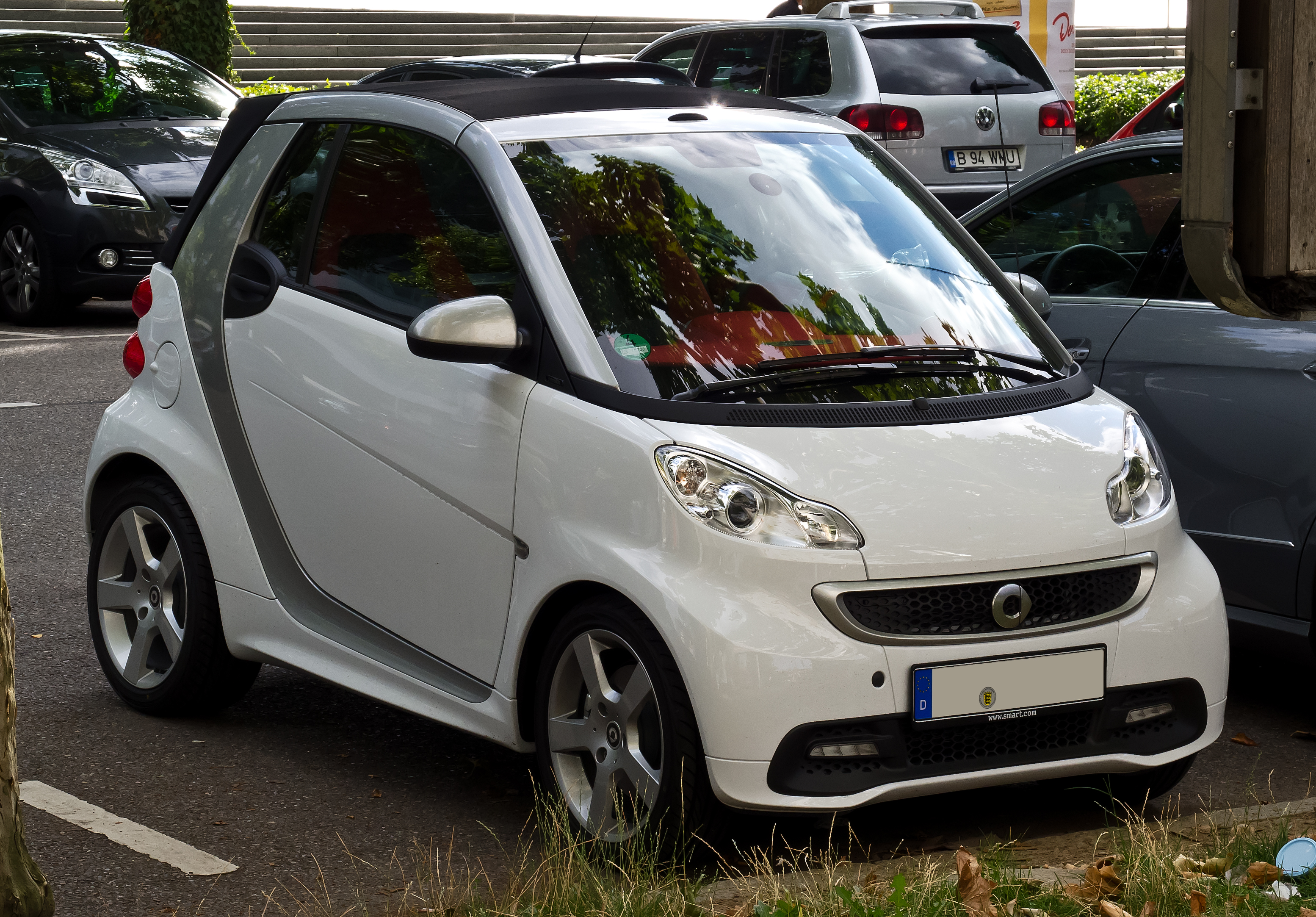 Smart Fortwo Cabriolet Passion Sport-Paket (A 451, 2. Facelift)